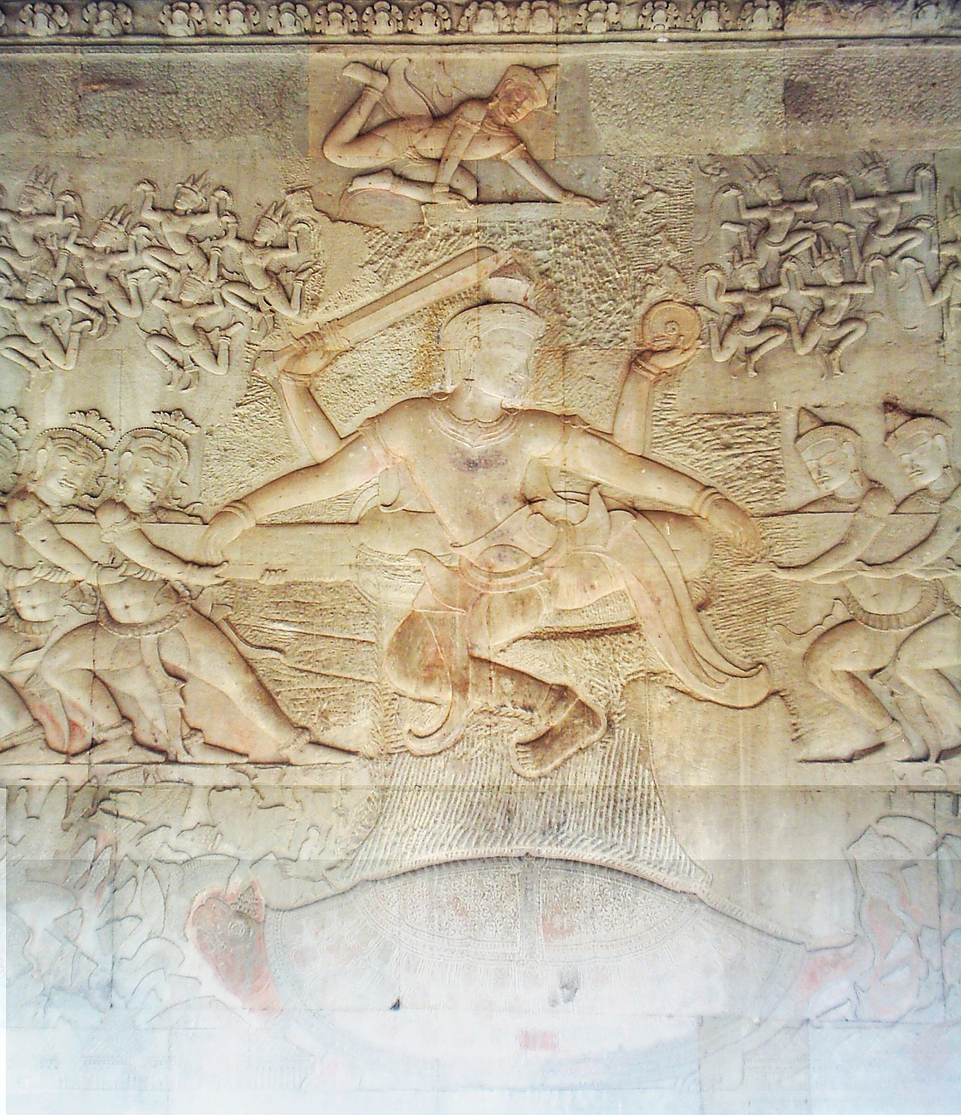 The Churning of the Ocean of Milk, depicted in bas-relief on the south of the east wall of Angkor Wat's third enclosure.